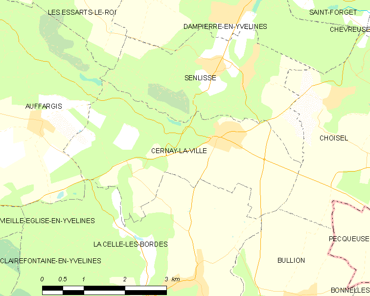 Map of French municipality Cernay-la-Ville